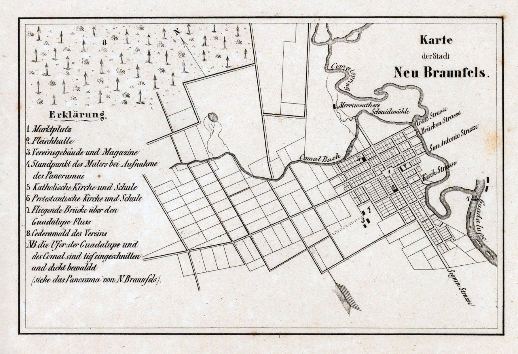 This town plan was part of a packet of materials published in 1851 by the Verein zum Schutze Deutscher Auswanderer nach Texas (Society for the Protection of German Emigrants to Texas, also known as the Adelsverein or Society of Nobles headquartered in Mainz and Wiesbaden). The port town and harbor of Indianola and the towns of New Braunfels and Fredericksburg all figured prominently in this project to settle hundreds of German emigrants in Texas during the 1840s and early 1850s. Employees of the Adelsverein who probably prepared these maps included Hermann Willke (ca.1822-after 1865), a young surveyor-engineer and Prussian army veteran and possibly Nicolaus Zink (1812-1887), also a surveyor-engineer and Bavarian army veteran who laid out the colony's town of New Braunfels. Of particular interest on the New Braunfels town plan is the notation "Standpunkt des Malers bei aufnahme des Panoramas" (Place where the artist stood when he made the panorama). This is a cross reference to the unfortunate Swiss artist Conrad Caspar Rordorf's panoramic view of that town and it attests to the kind of attention to detail represented in the Adelsverein's graphic publications which were intended for colonists and investors.